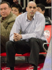 Coaching in China